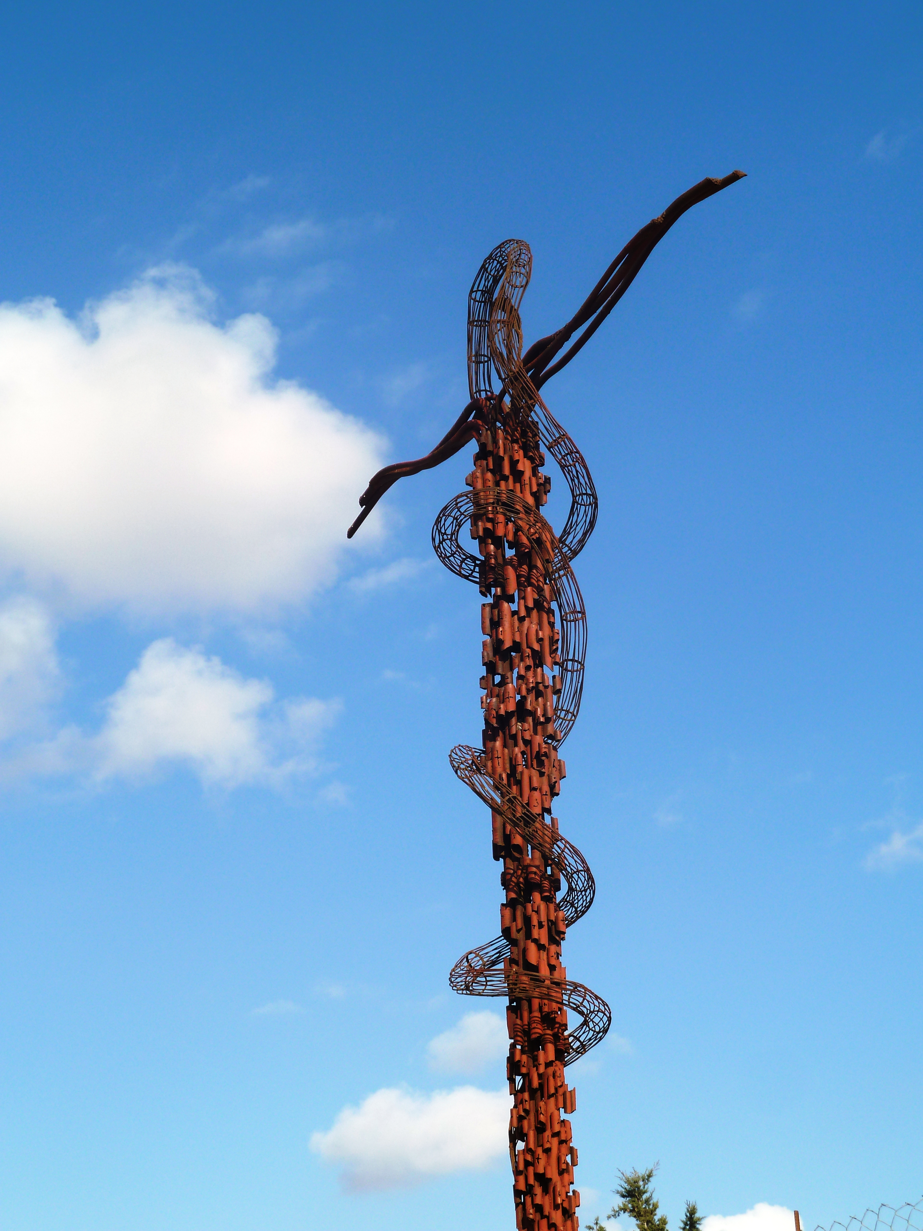 Brazen Serpent Monument, Mount Nebo, Jordan